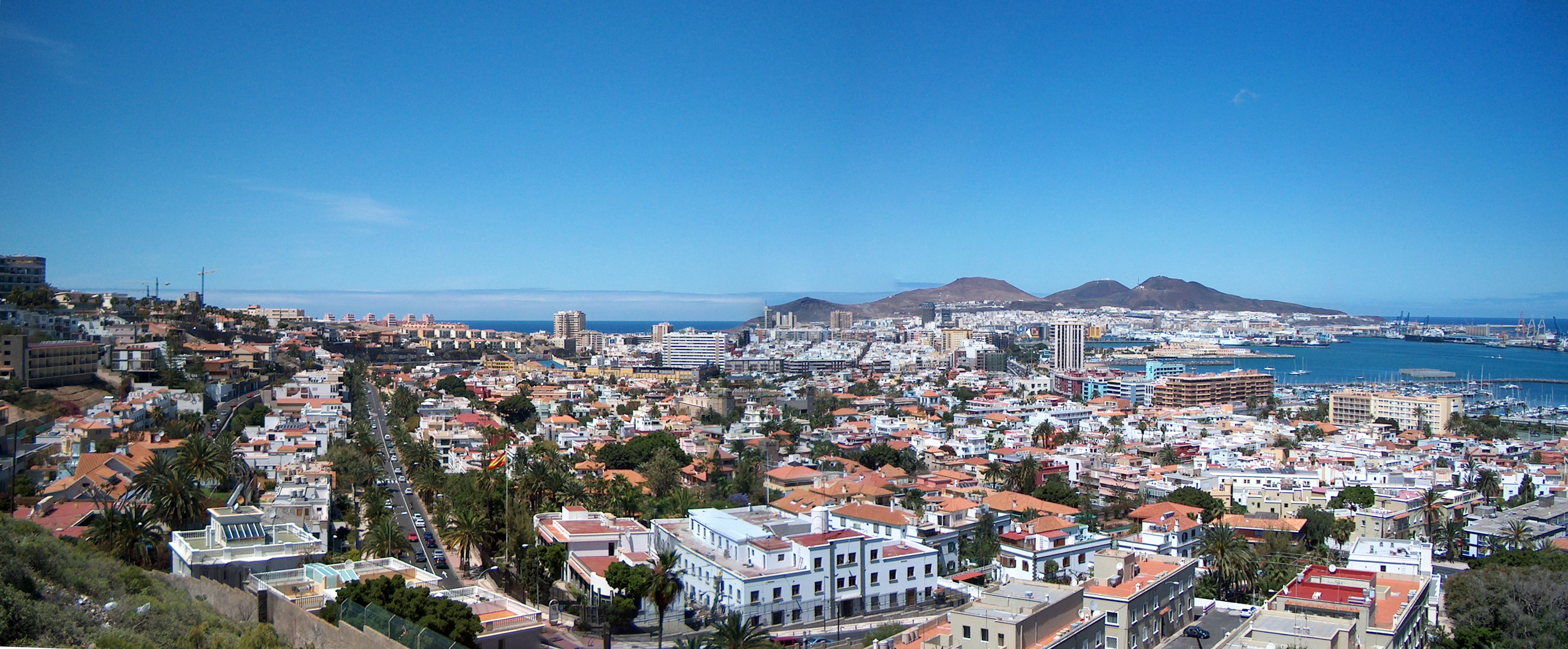 Panoramic view over the city of Las Palmas de Gran Canaria (Gran Canaria). Canary Islands, Spain.